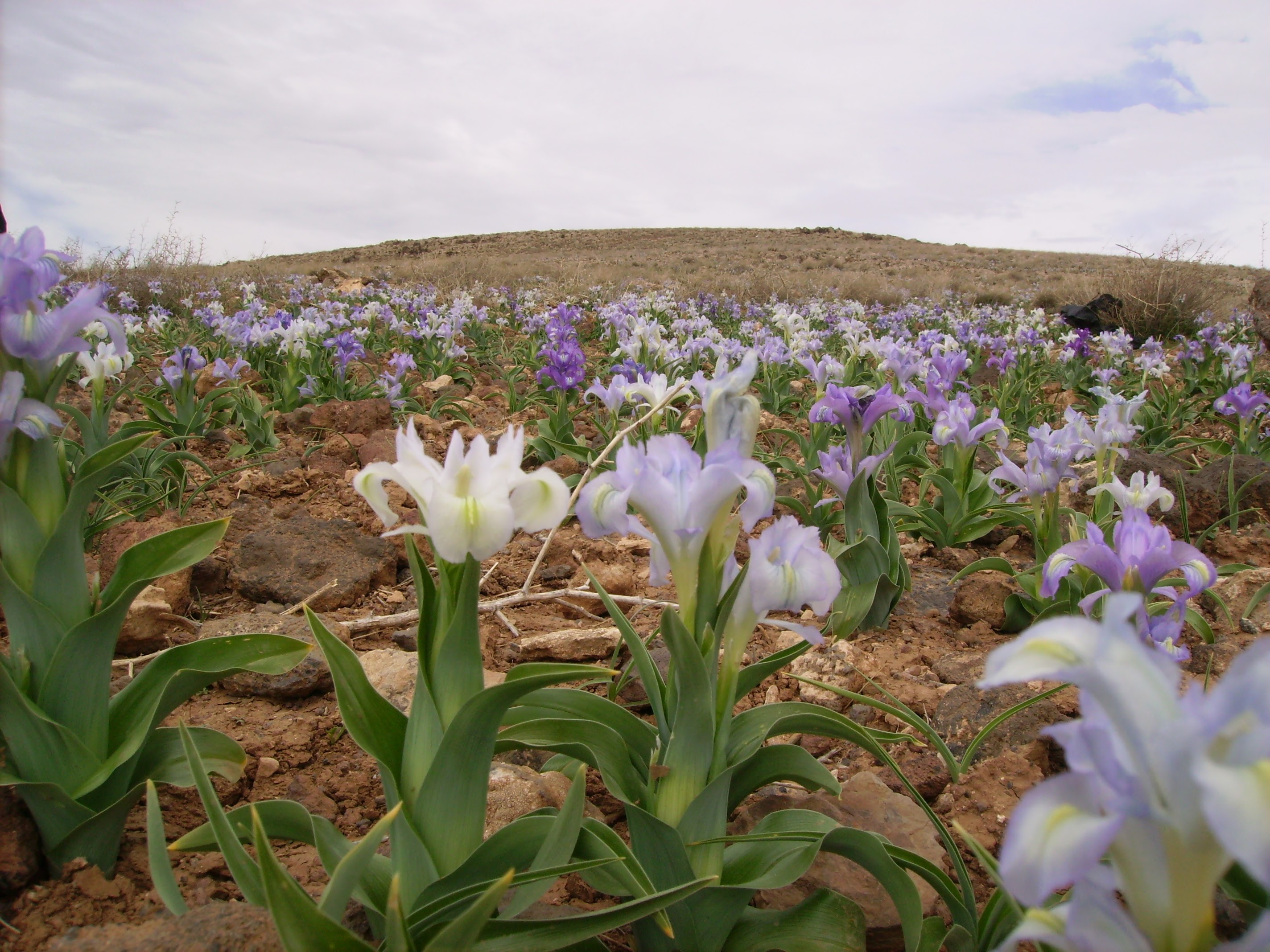 Iris aucheri flowering in its native range in Syria.